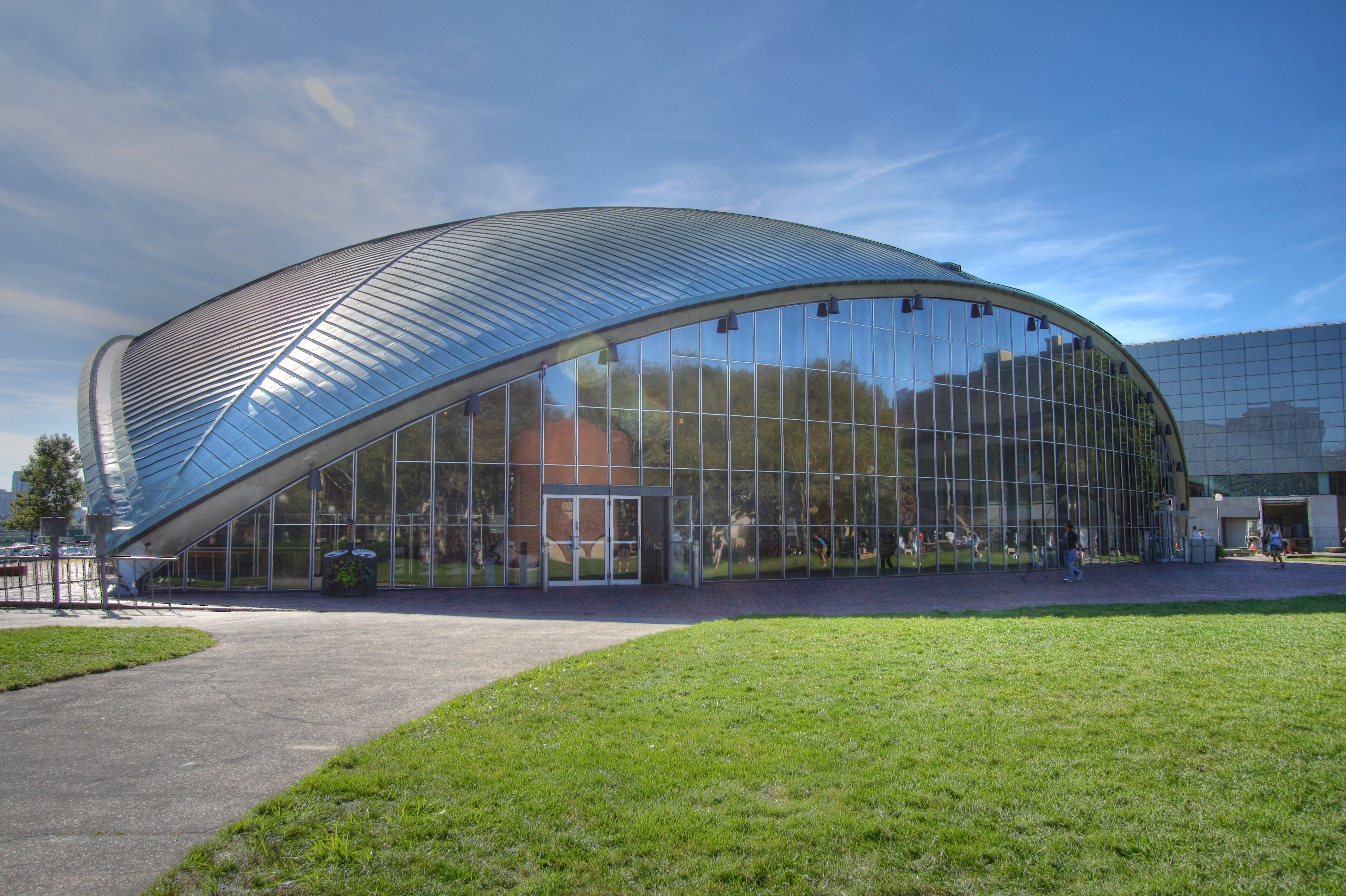 MIT Kresge Auditorium